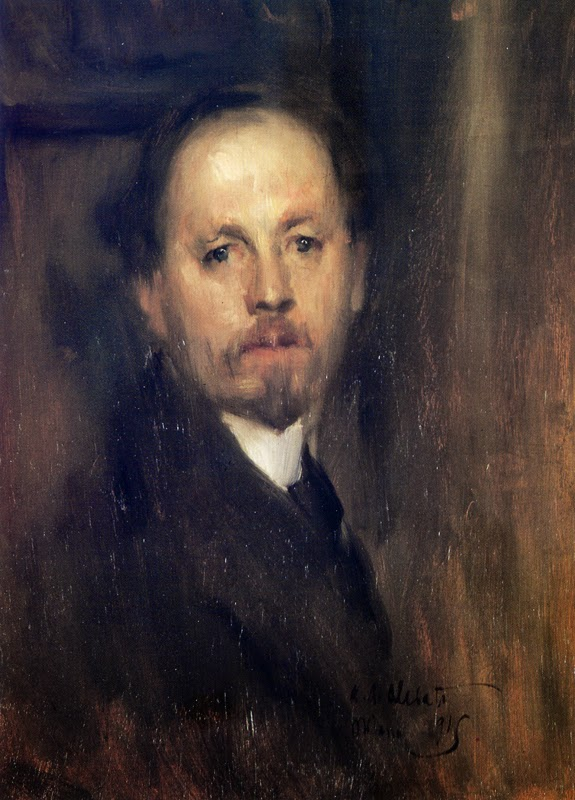 Selfportrait